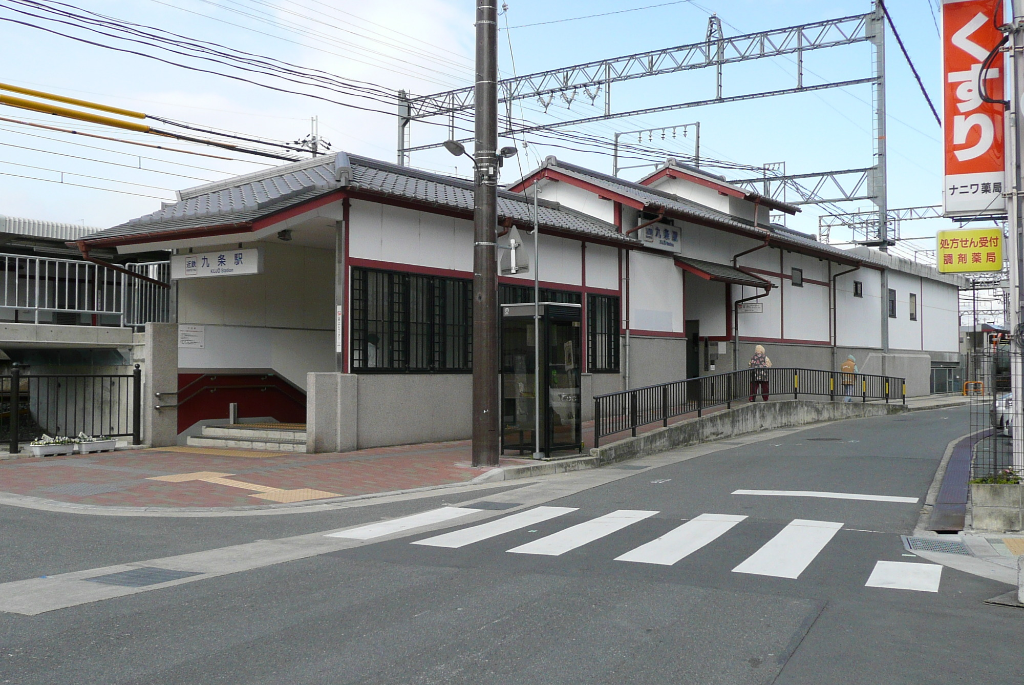 Kinki Nippon Railway,Kashihara Line,Kujo Station east entrance. / 近鉄橿原線九条駅東口